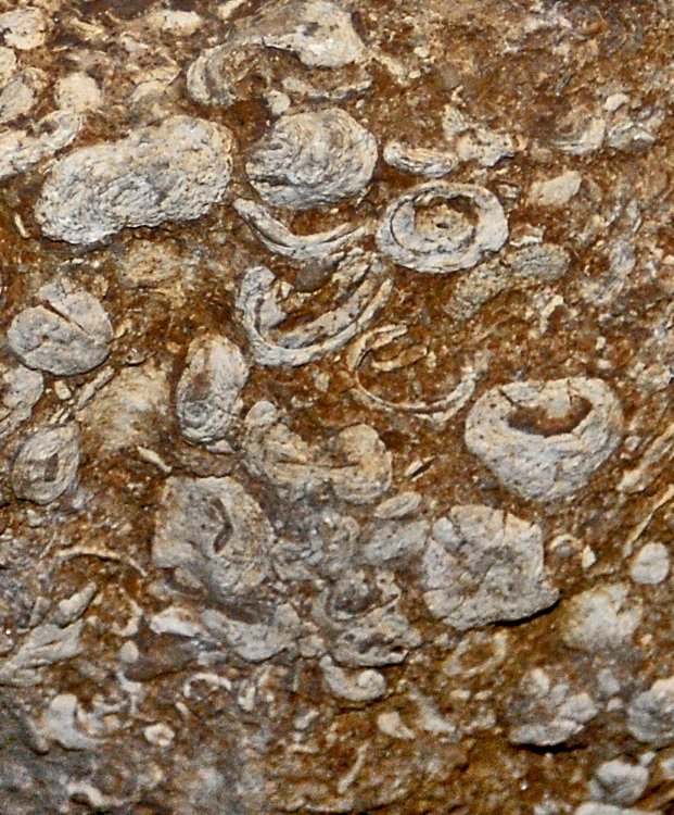 Cropped image of taxon in file name